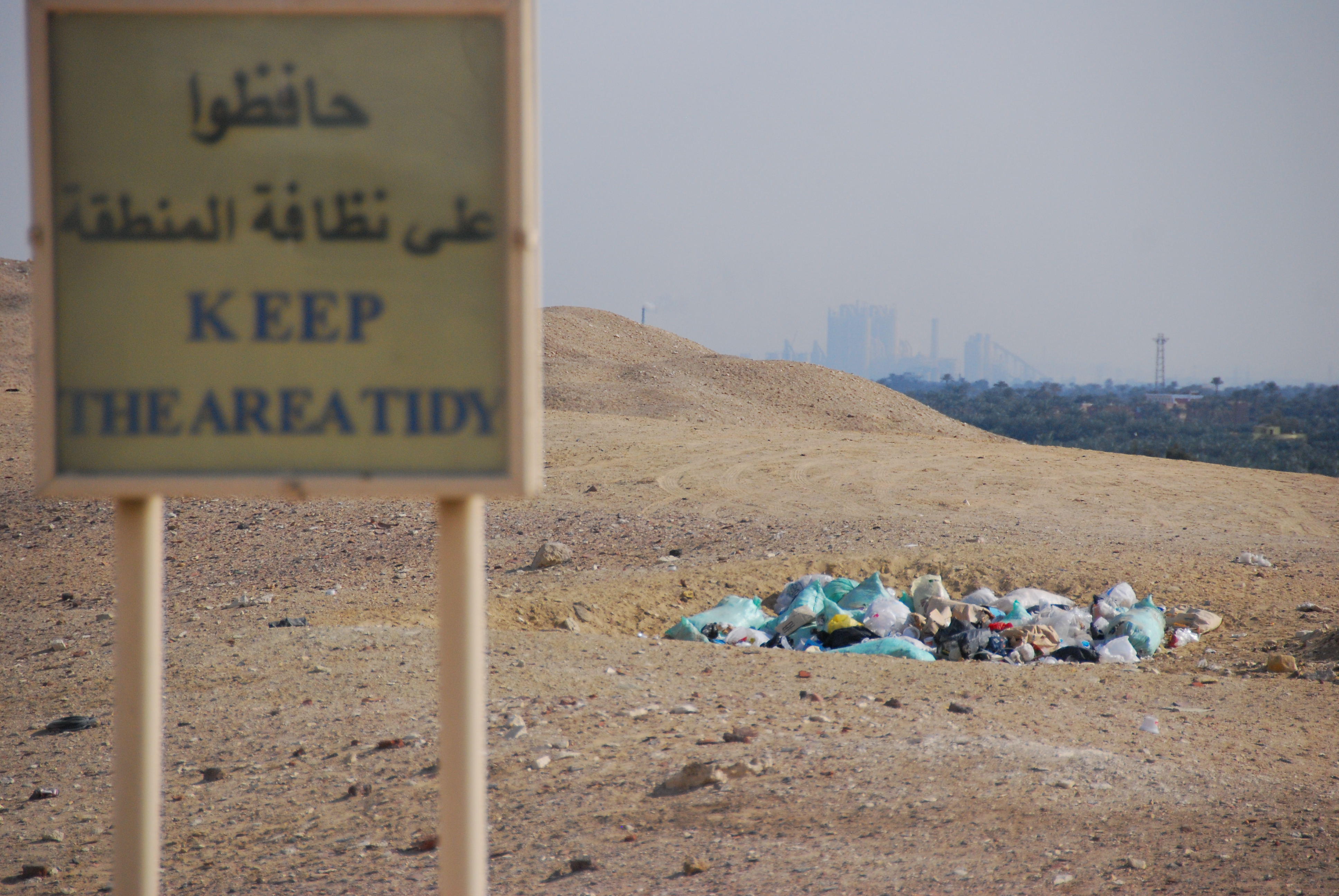 trash dump behind the parking of the Saqqara pyramid field south of Cairo.